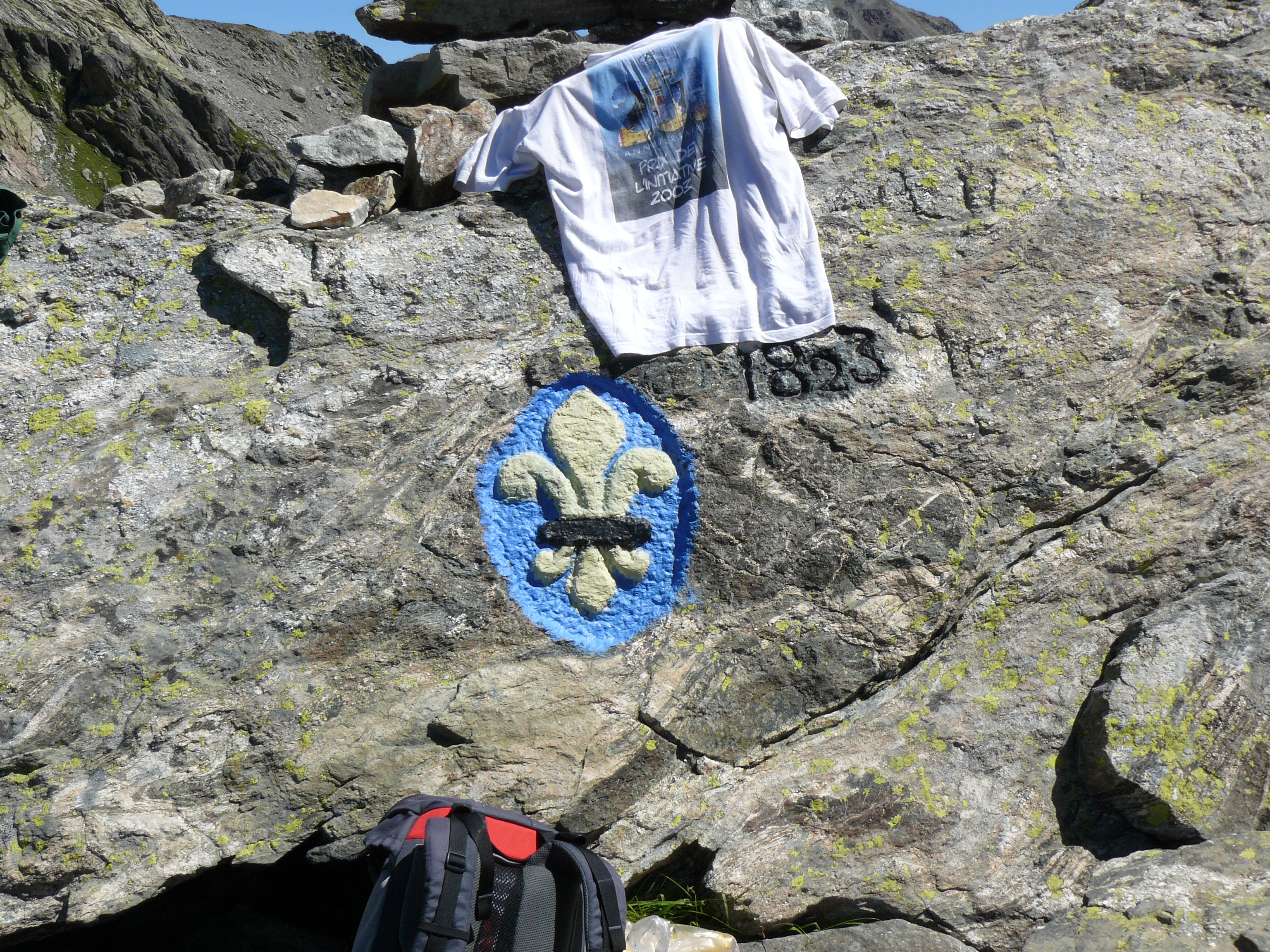 The blason of french old kingdom located on the col de la Croix between Savoie and Isère in France.